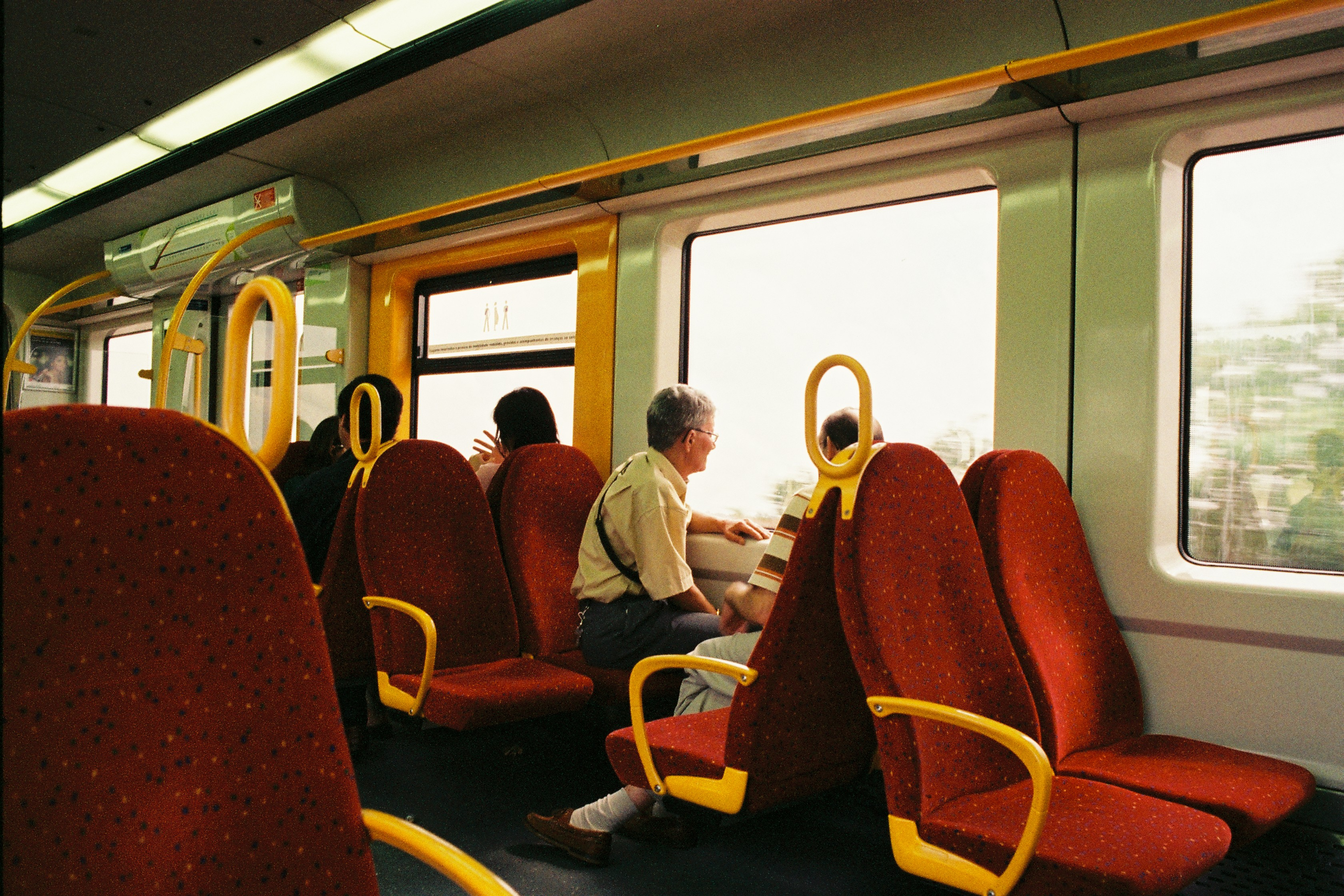 Man looking out the window of a Portuguese train type 3400. Taken with Solaris Ferrania film.